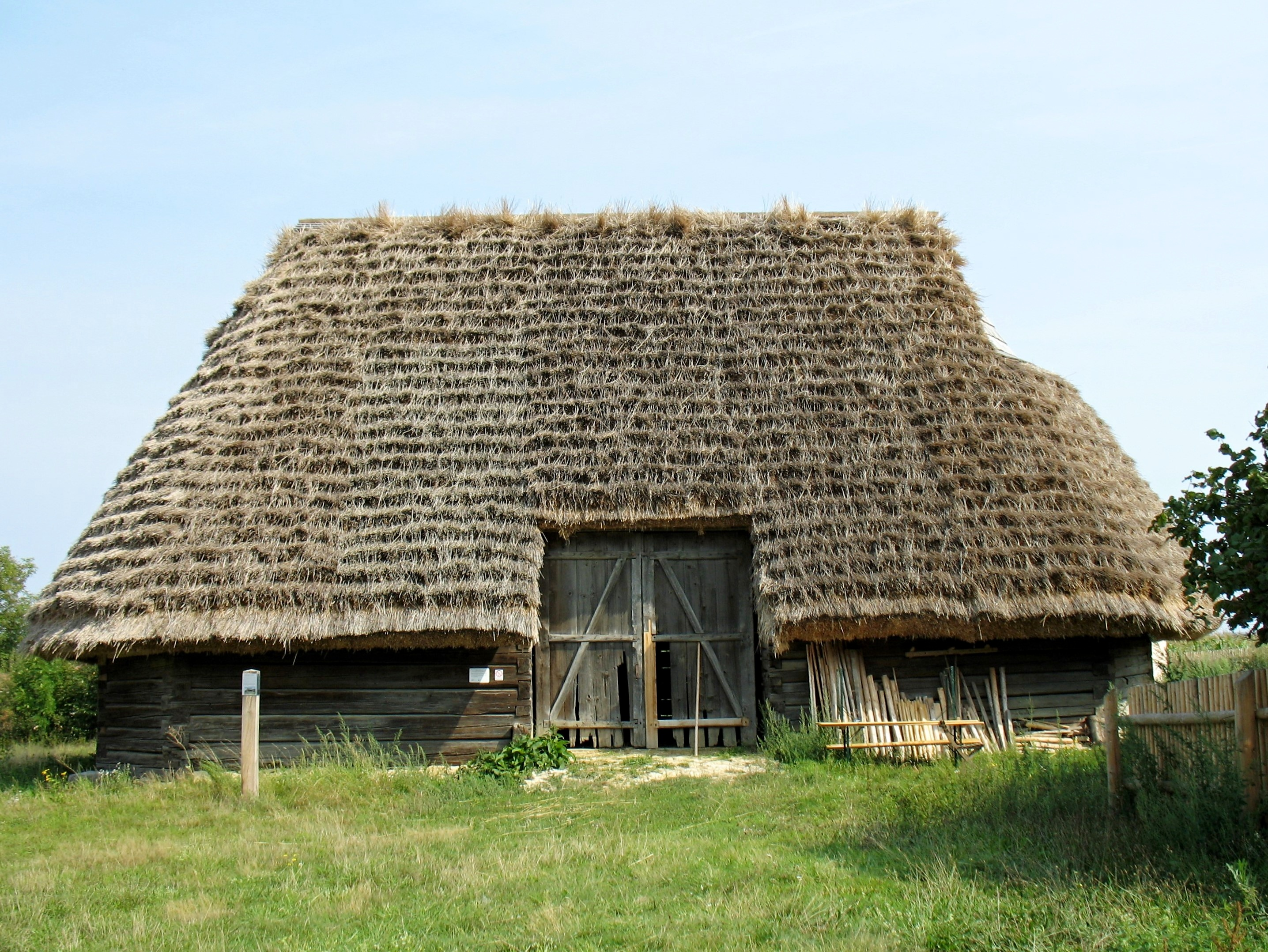 Polygonal barn (end 17th. century) from Čistá No 97, displaced to Trstěnice, District Svitavy, Czech Republic